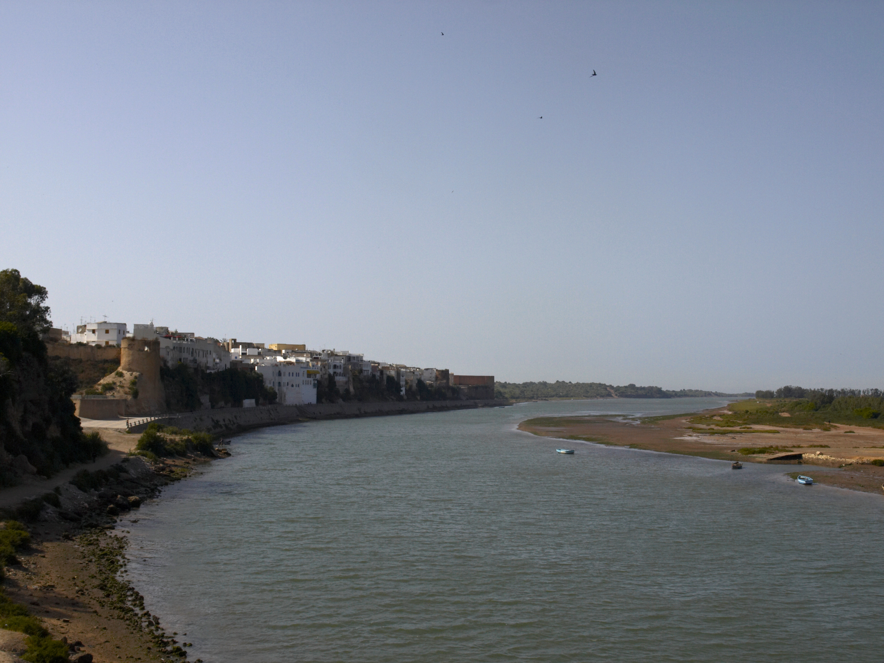 Azemmour seen from Oum Er-Rbia River